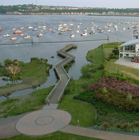 Cardiff Bay Wetlands Reserve, Cardiff, Wales